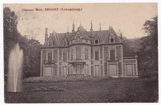 Postcard from 1913 of the Château de Beggen (former Château Metz), current Embassy of Russia in Luxembourg.